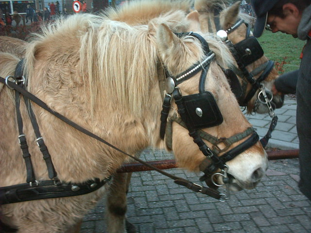 Two horses